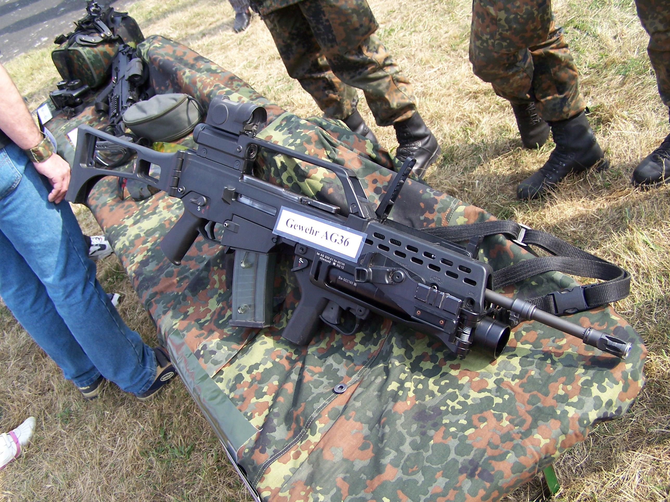 A G36 of the German Army with an AG36 and a Zeiss RSA-S Reflex Sight red dot sight that the German Army selected for their upgraded G36A2 variant.